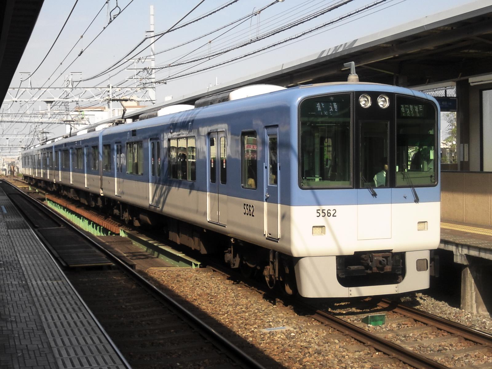 Hanshin Electric Railway 5550 series EMU set 5551 at Hanshin Ashiya Station